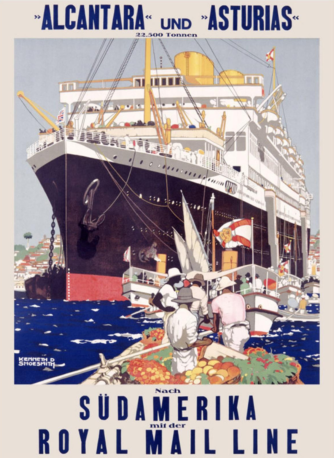 Poster for the Royal Mail Steam Packet Company (Royal Mail Lines), advertising the liners Alcantara and Asturias